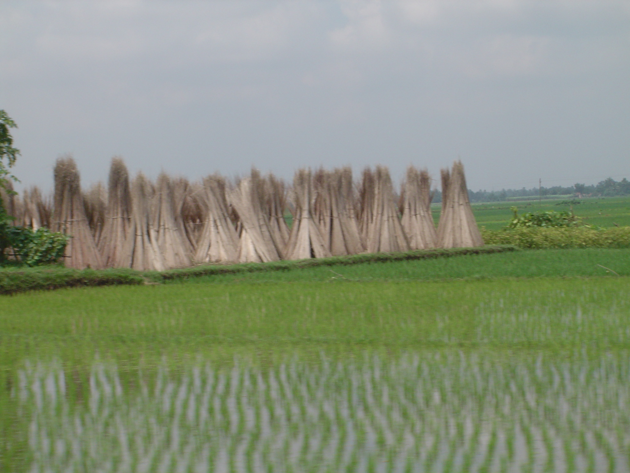 Paddy field with recently sown saplings, stackes of jute stickes in the background